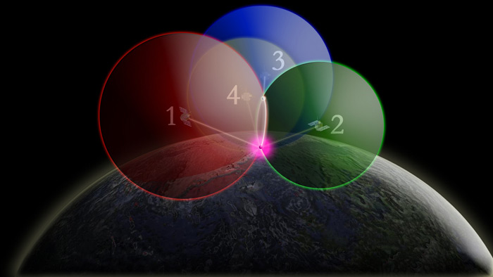 Shows the use of four GPS satellites in order to find a precise location on the surface of the Earth.